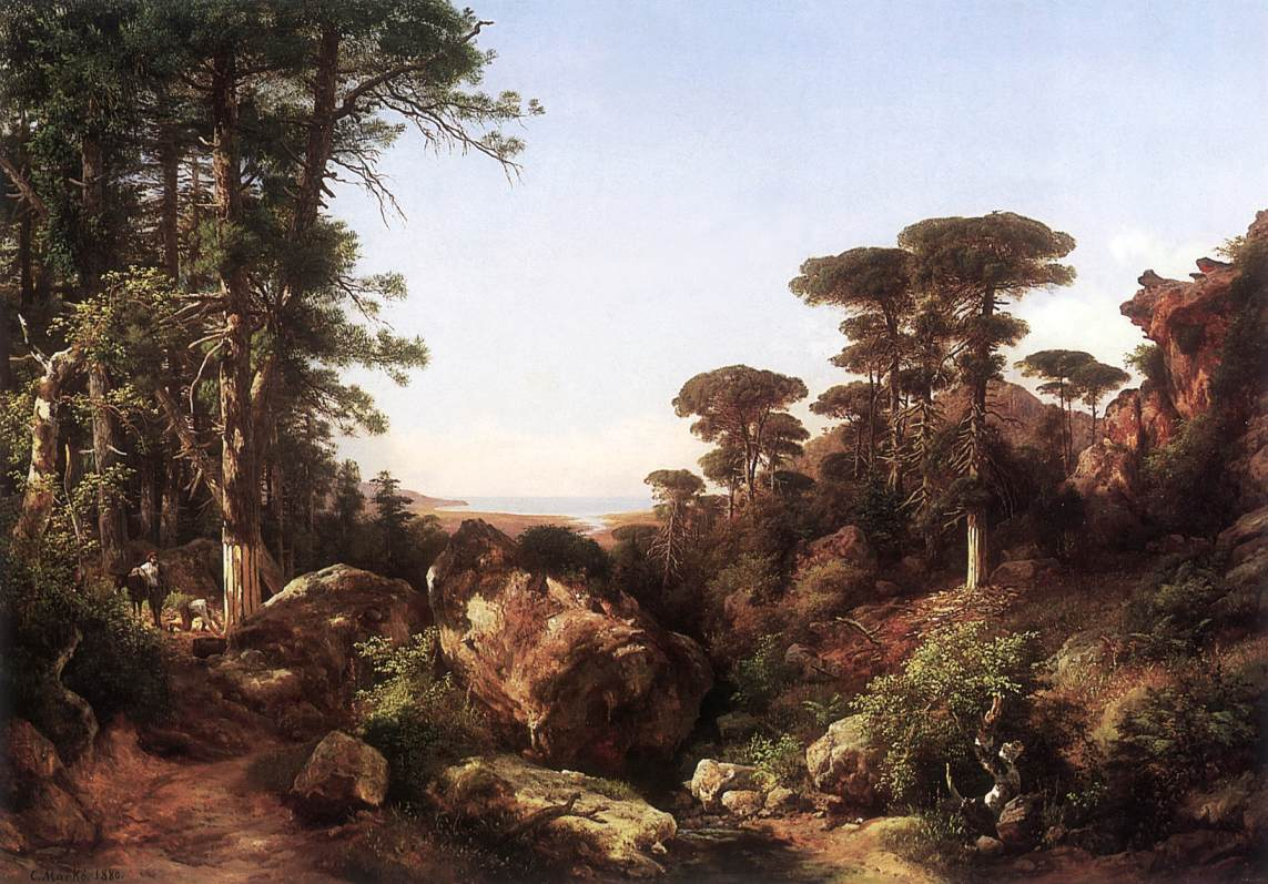 Forest Scene at Ailo in Corsica